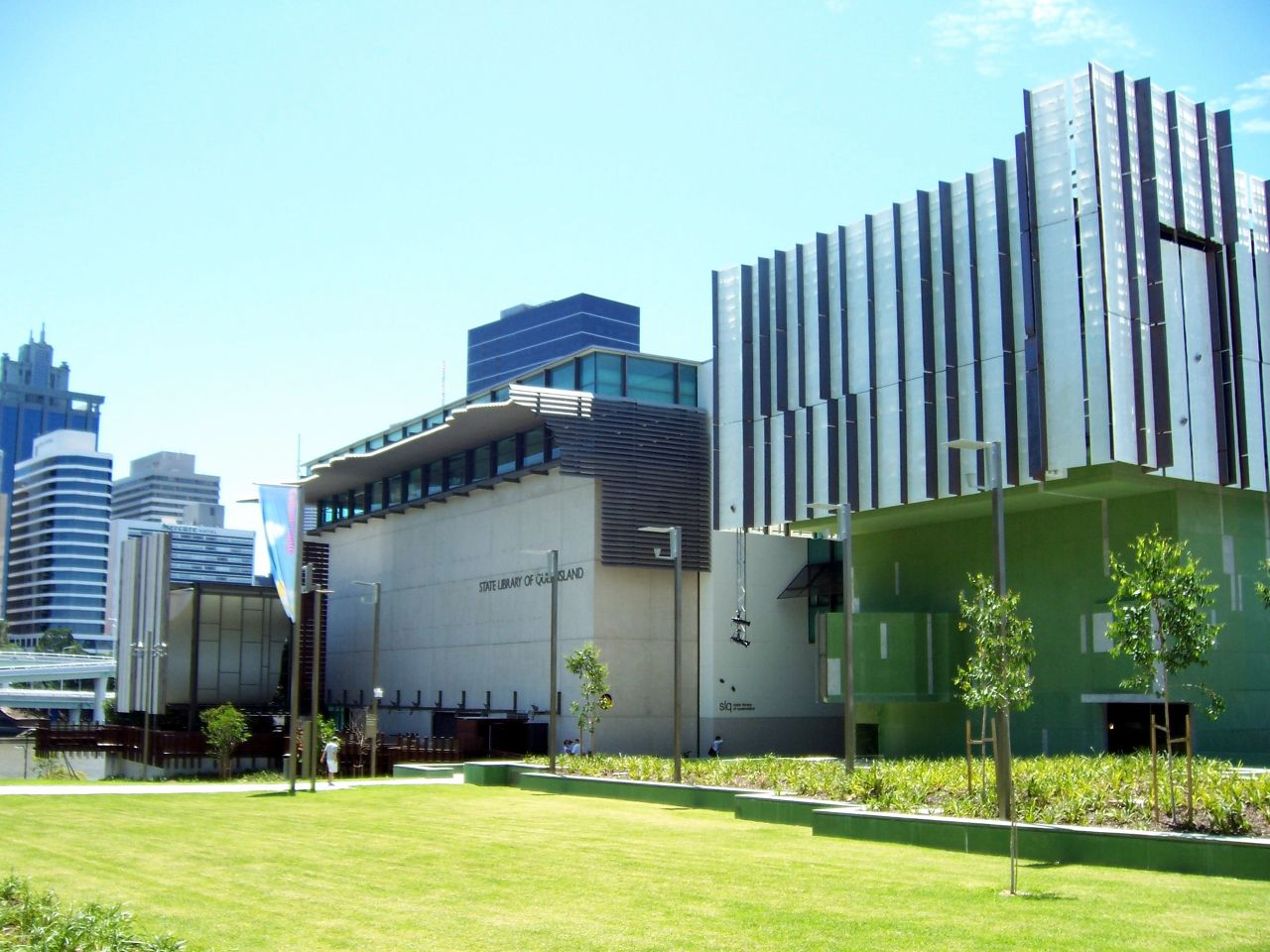 A view of the North end of the new State Library of Queensland.